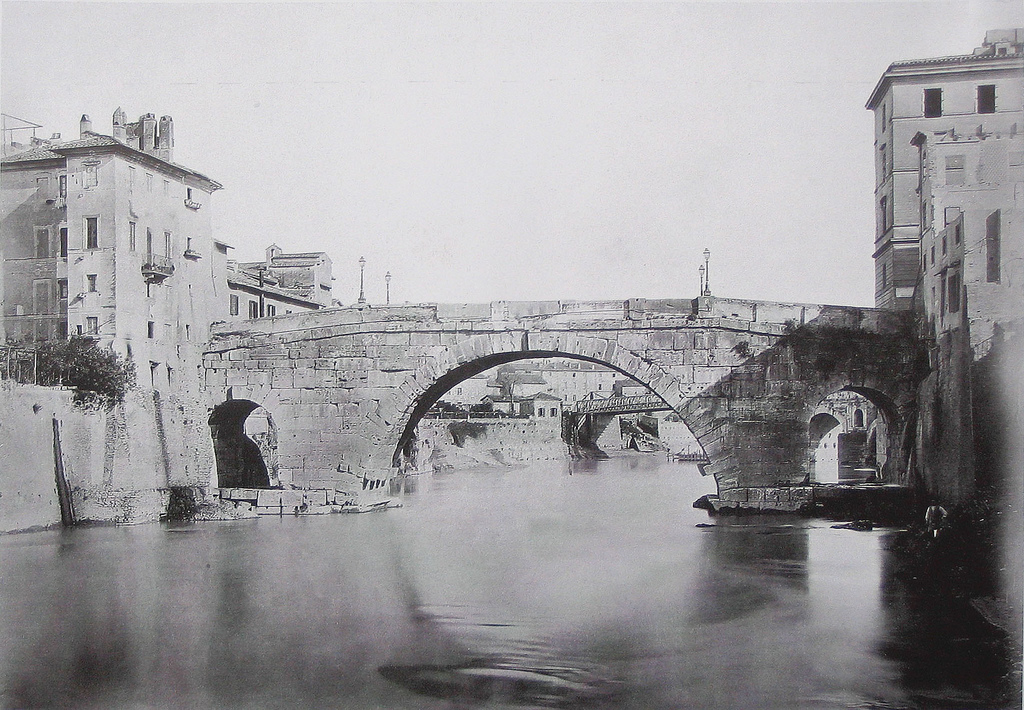 The Roman Ponte Cestio in Rome (Italy) around 1880. The picture shows the bridge before its reconstruction in the course of a river bed broadening.